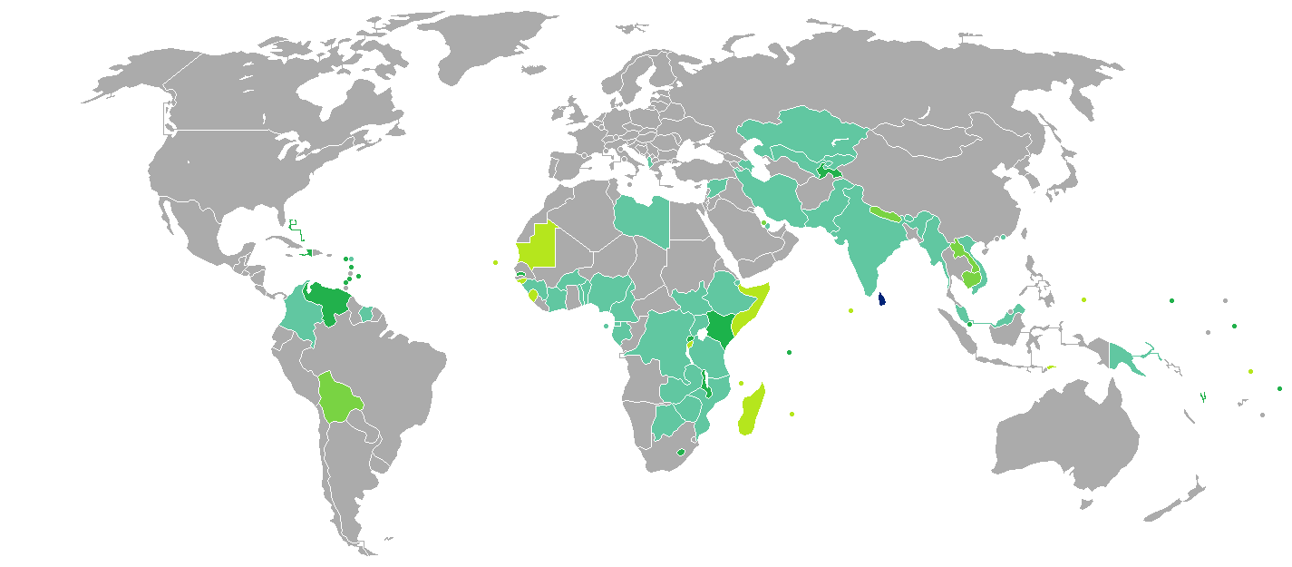 Visa requirements for Sri Lankan citizens Sri Lanka Visa free access Visa on arrival eVisa Visa available both on arrival or online Visa required